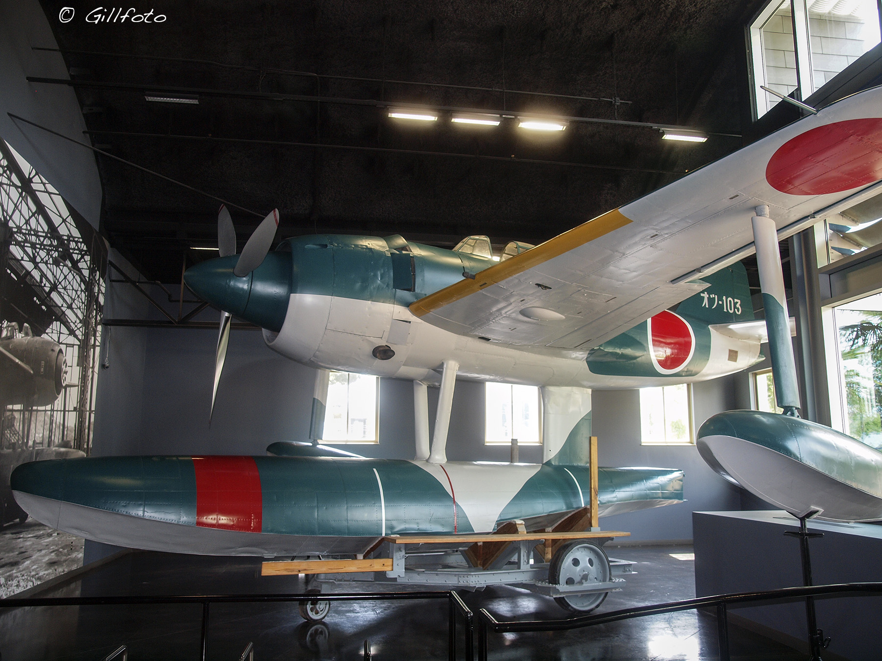 Kawanishi N1K1 ‘Rex’ floatplane - National Museum of the Pacific War / Admiral Nimitz Foundation., Fredericksburg, Texas, USA